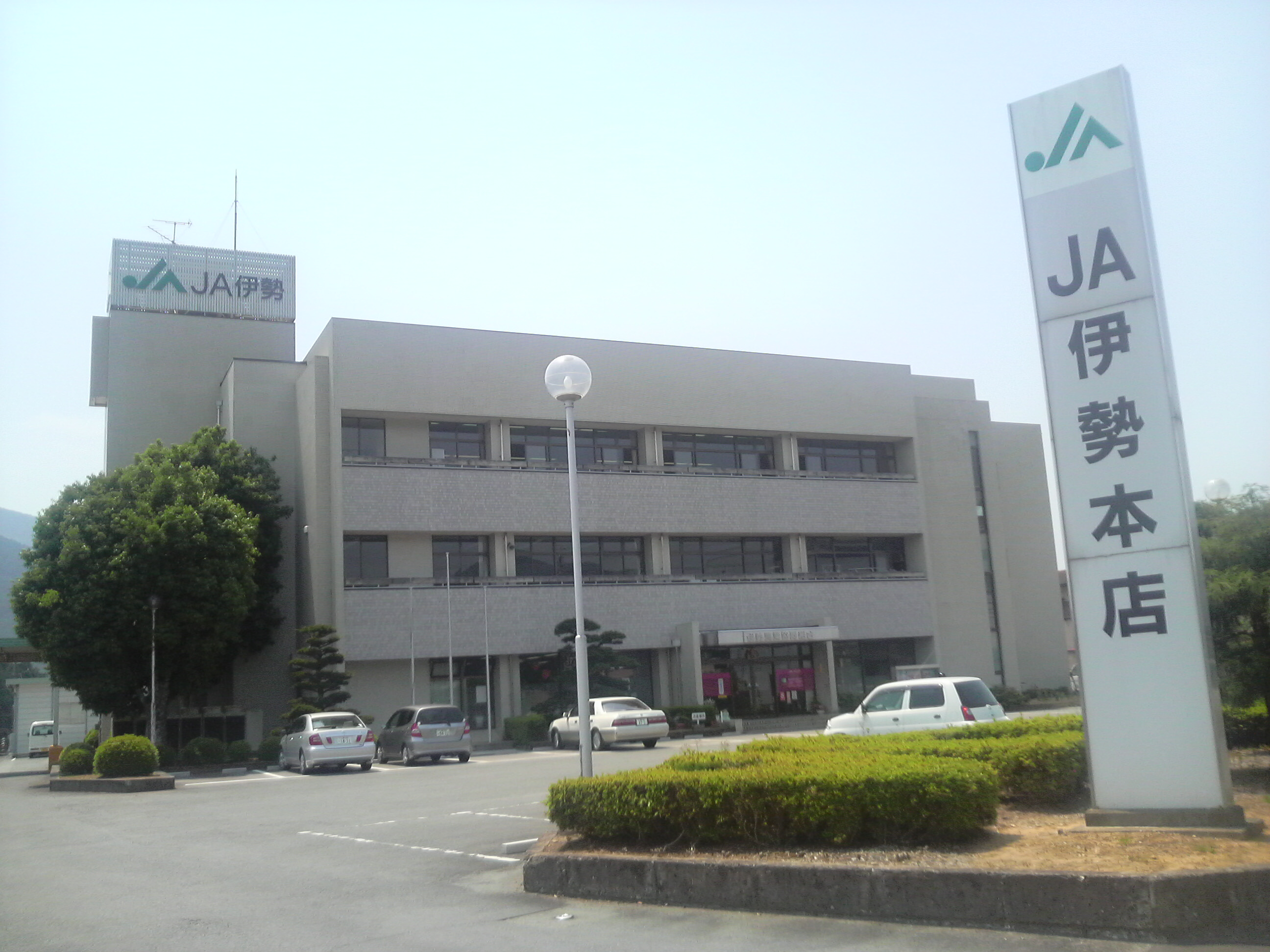 Head Office of JA-Ise in Watarai town, Watarai District, Mie prefecture, Japan.